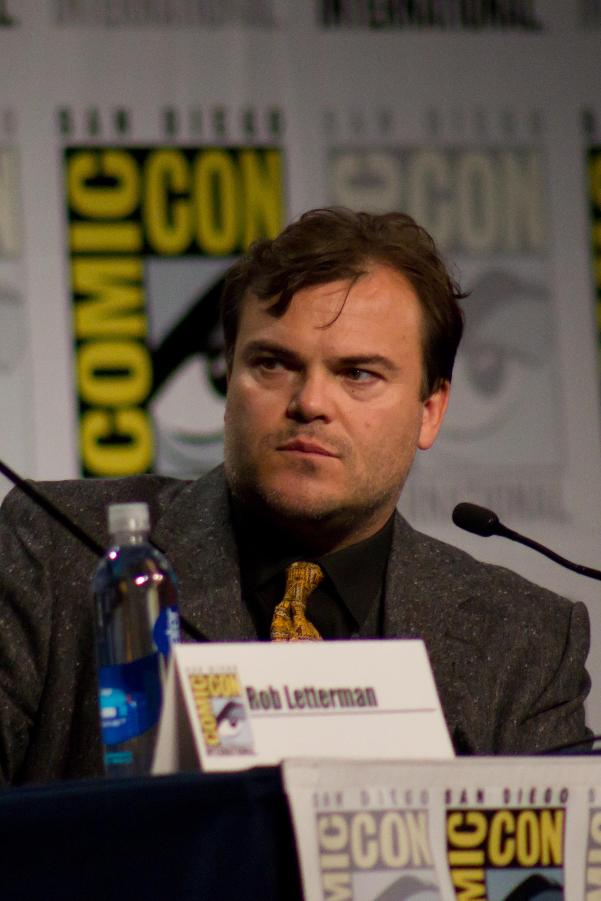 Jack Black at the Goosebumps panel at the 2014 Comic-Con International